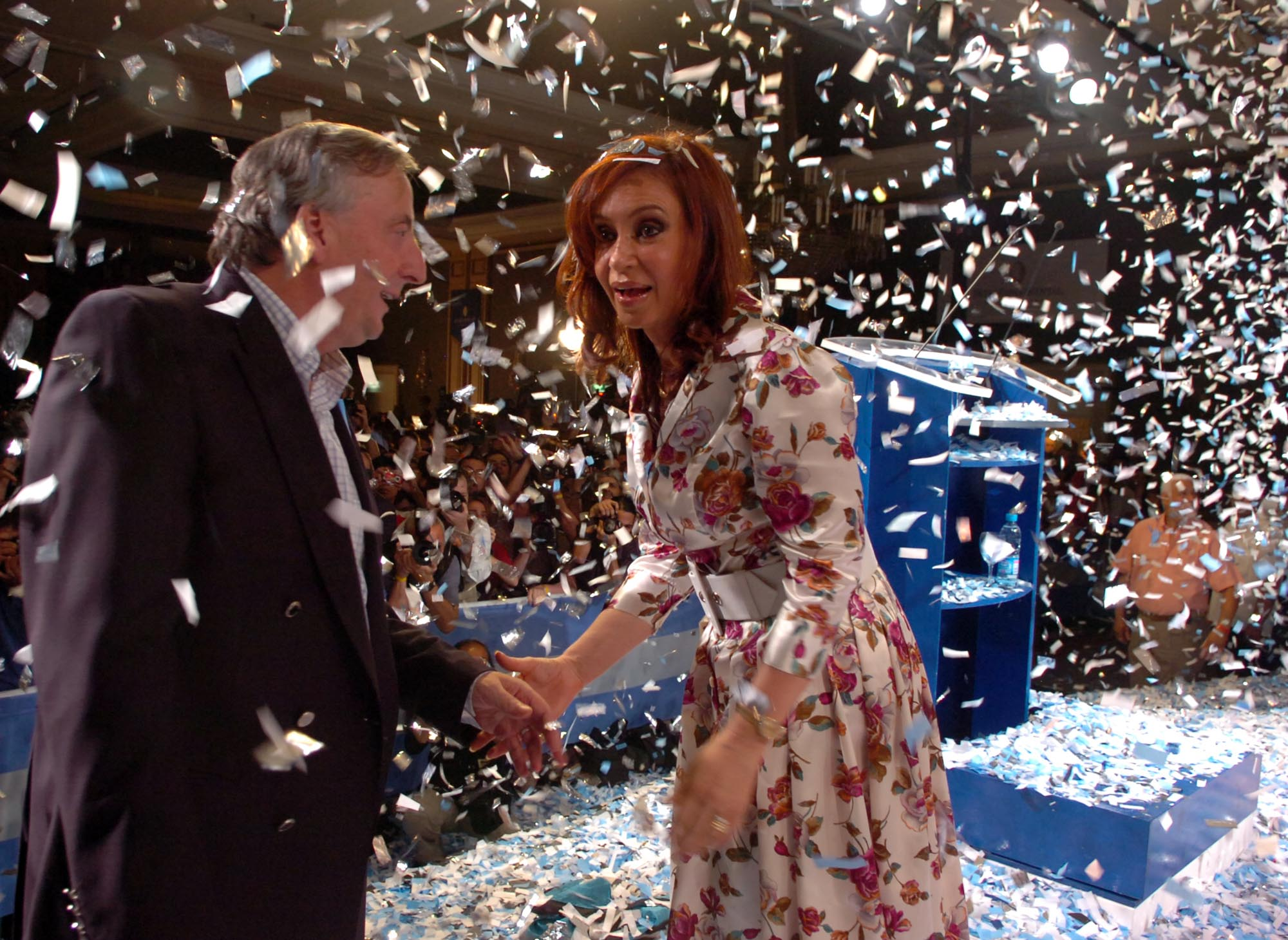 Cristina de Kirchner next to Néstor Kirchner celebrating the election results.